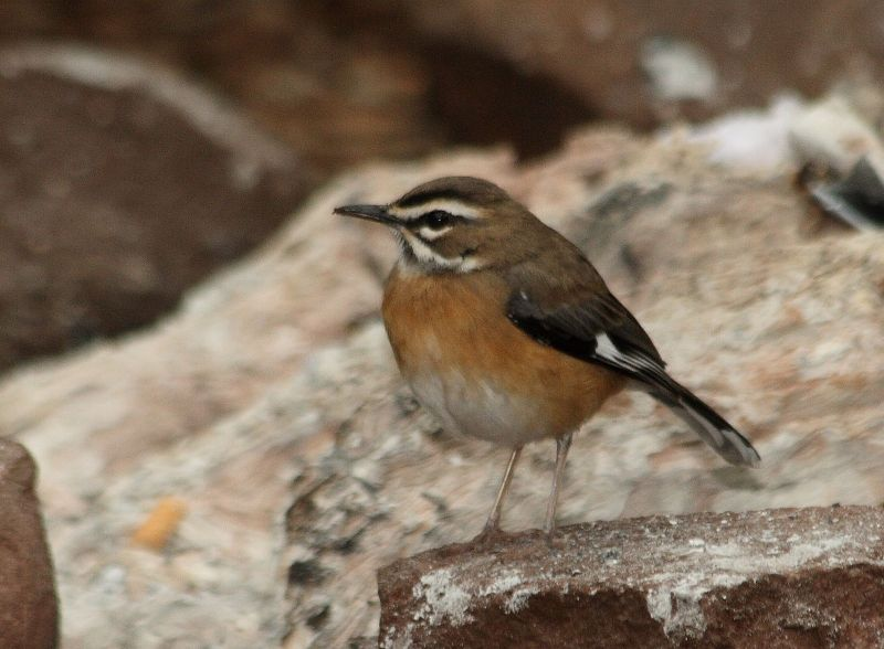 Bearded Scrub-Robin (Cercotrichas quadrivirgata) at a camp-site fire place. Location: Mkhuze Game Reserve, South Africa. For more info on this species